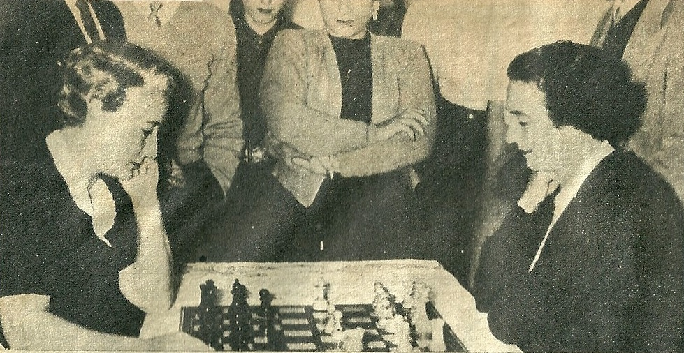 Celia Baudot vs María Trubint